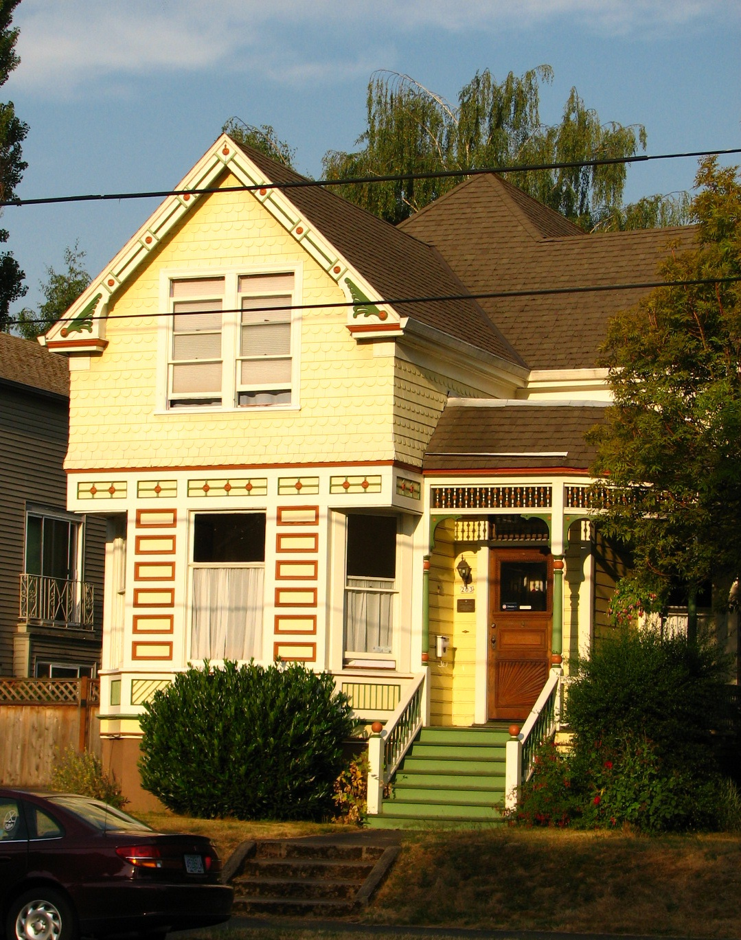 The historic Otto W. and Ida L. Nelson House (built ca. 1896), located at 203 Southeast 15th Avenue in Portland, Oregon, United States, is listed on the US National Register of Historic Places.